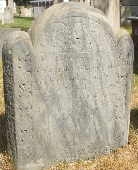 Tombstone of early Providence settler, John Whipple, North Burial Ground, Providence